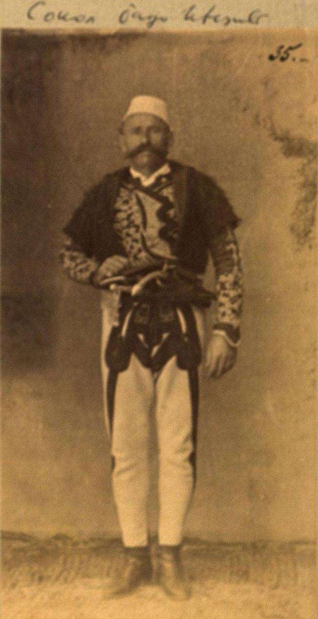 "Sokol Baci Ivezić", in a photo-book held at the National Library of Serbia.